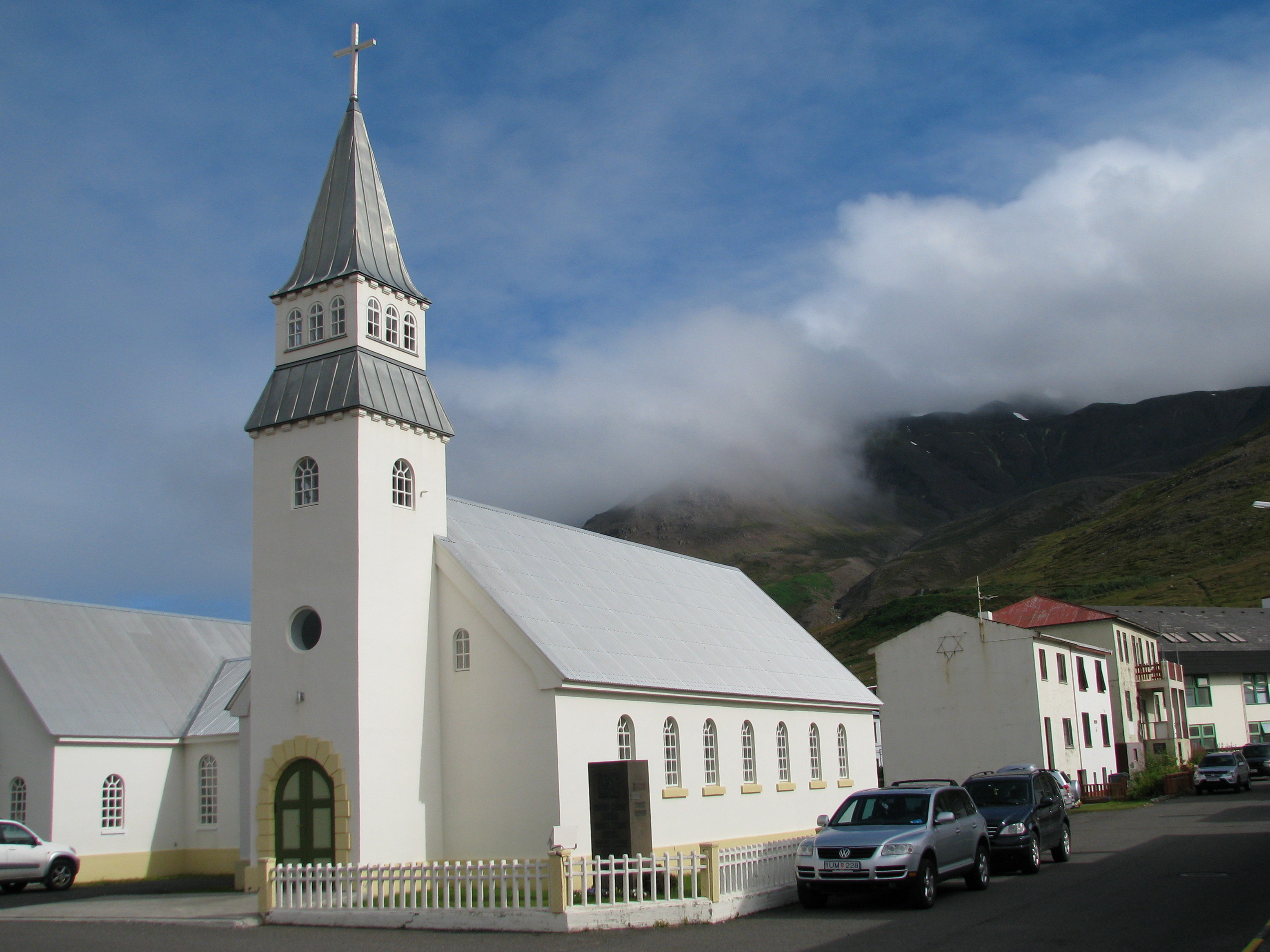 Ólafsfjardarkirkja, a church on Iceland